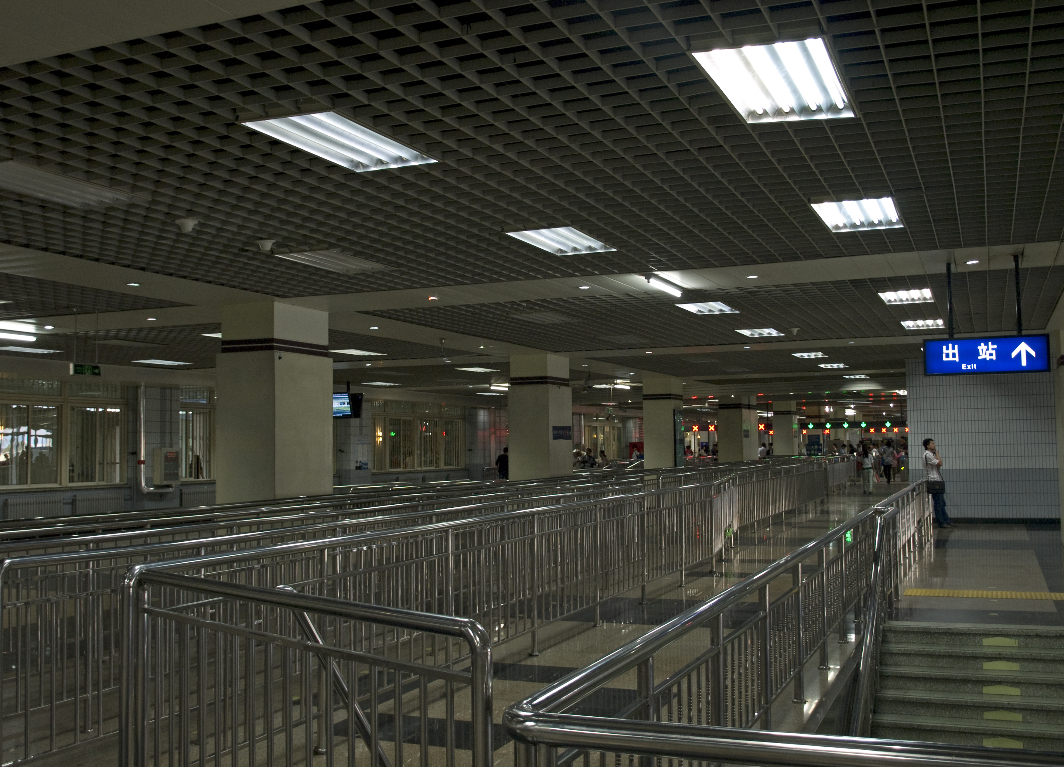 Transfer area between Sihui East stations (Line 1 and Batong line), Beijing Subway